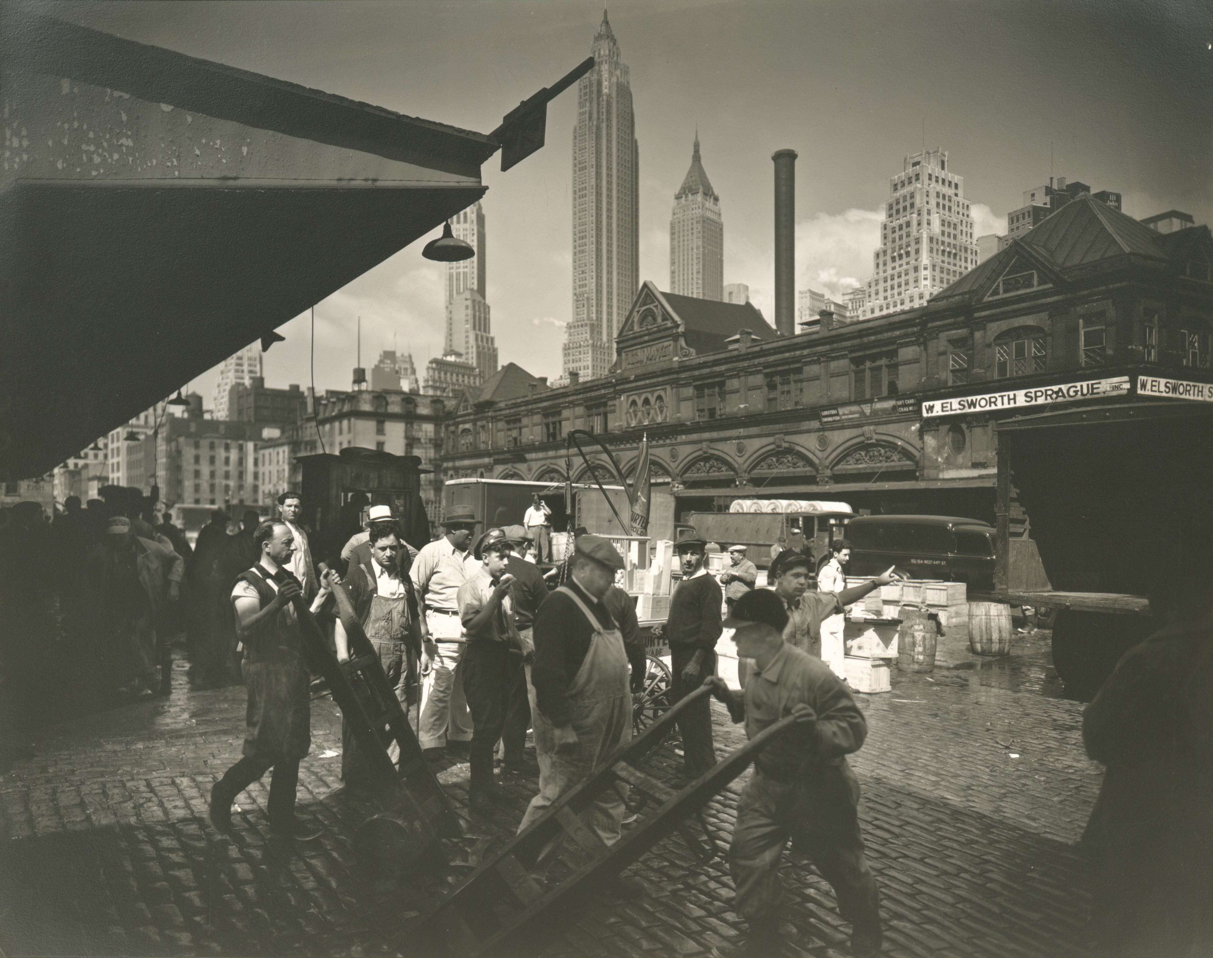 Men move crates and barrels of fish in front of the Fulton Market building, skyscrapers rising in the background. Citation/Reference: CNY# 132 Code: II.C.a.